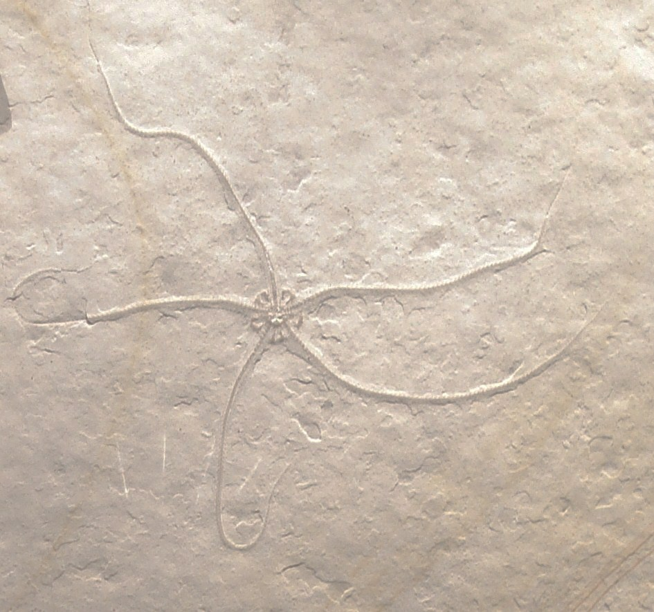 fossil of Geocoma carinata